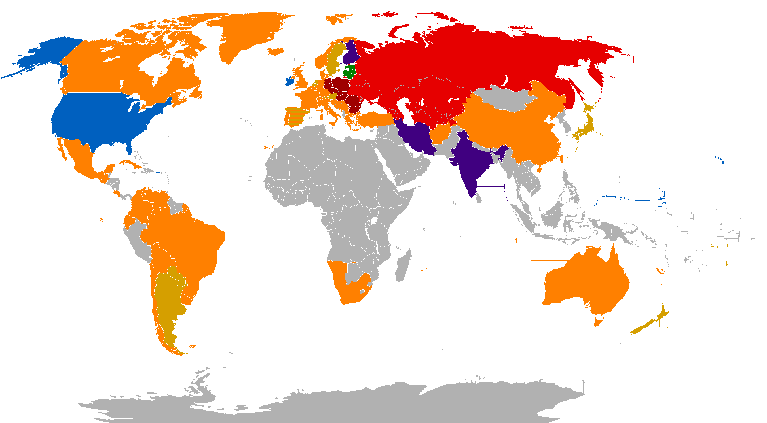 Please see the legend for more details.